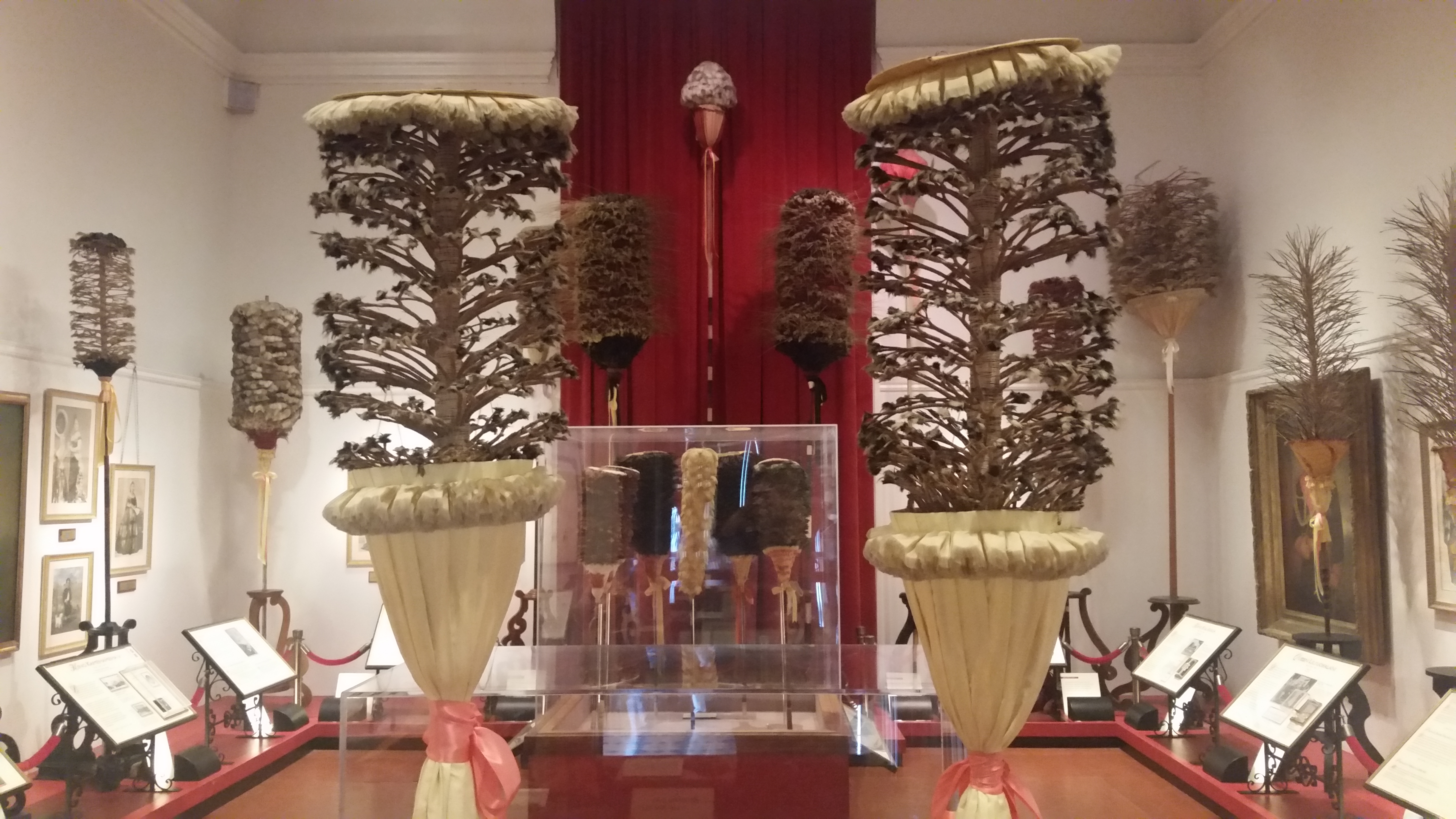 Bishop Museum Kahili Room